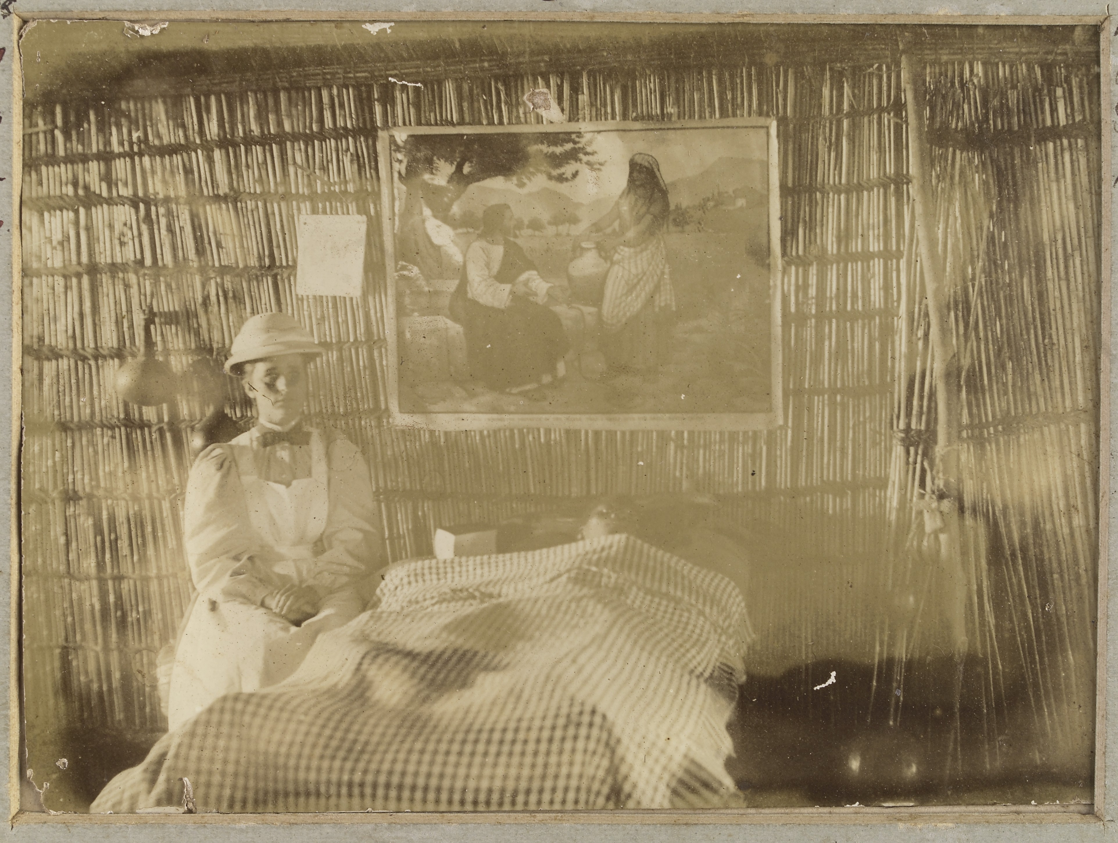 Beckenham Bed, with patient convalescing after having a compound fracture of the left femur and Miss Timpson seated to the left, Mengo Hospital, Uganda Archives & Manuscripts Keywords: Beds; Patient; Matron; Kampala; Albert Ruskin Cook; Africa; Bed; Convalescence; Patients; Church Missionary Society; Uganda; Missionary Medicine; Hospitals